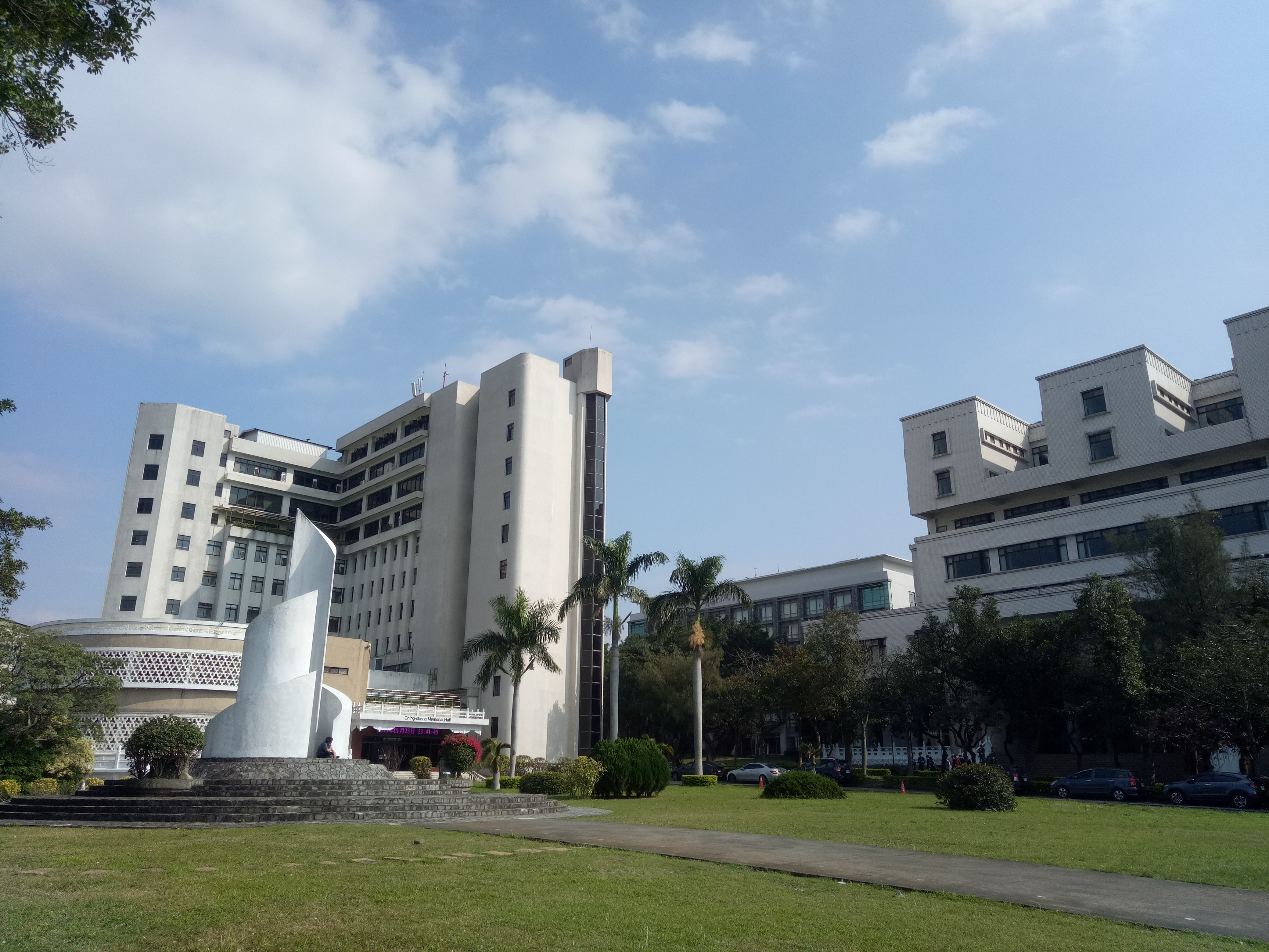 Tamkang University, New Taipei City